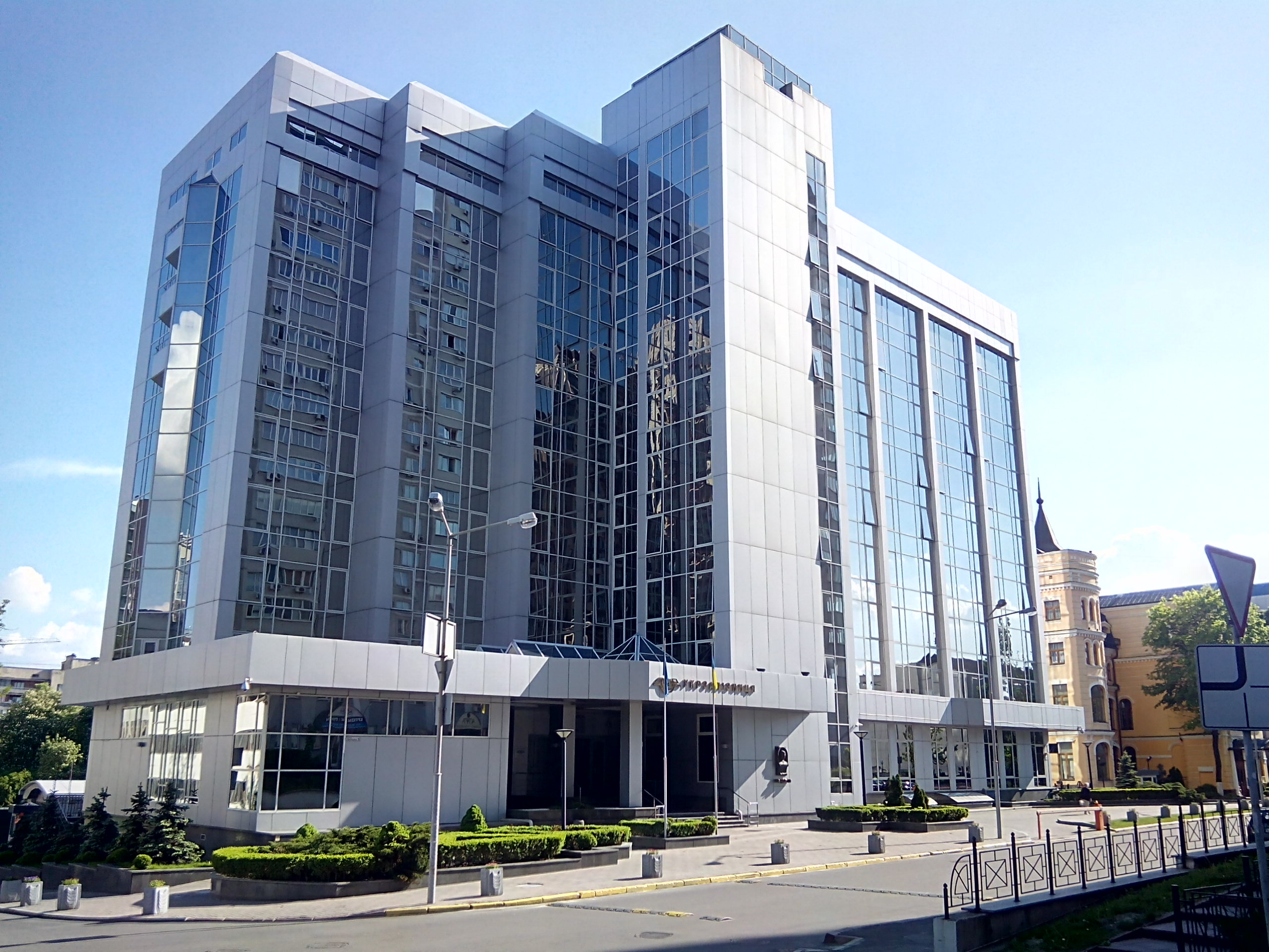 Ukrainian railway headquaters